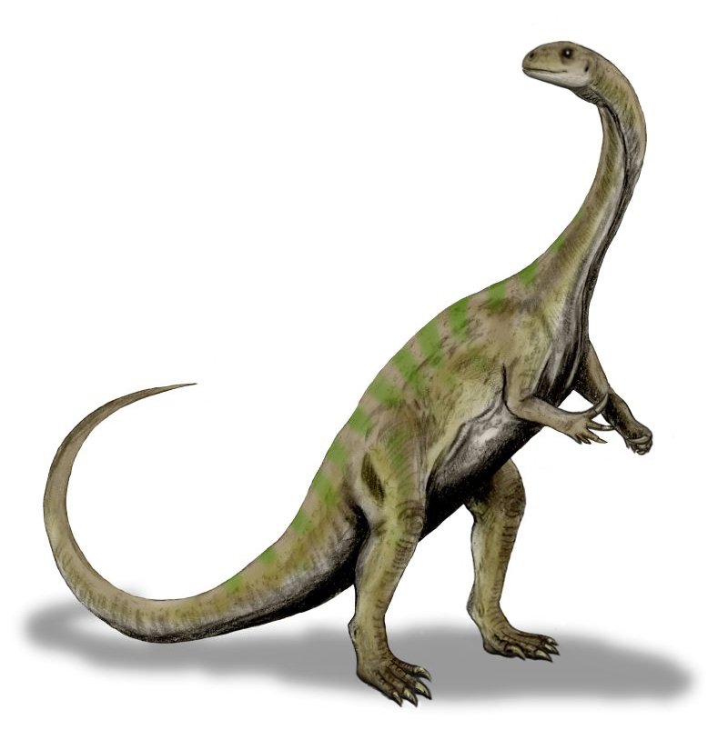 Massospondylus carinatus, a prosauropod from the Early Jurassic of South Africa, pencil drawing, digital coloring